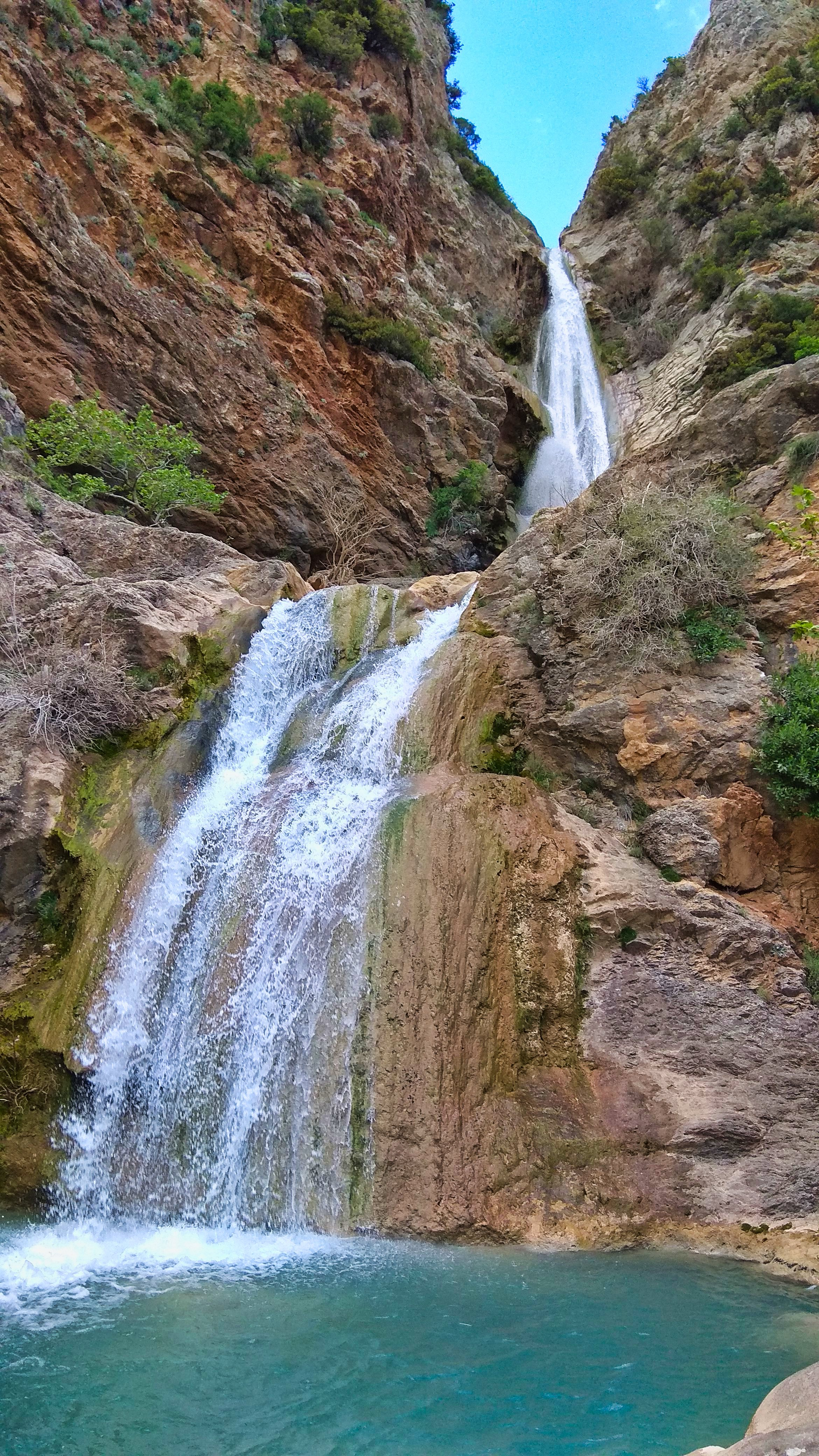 This is a photography of Natura 2000 protected area with ID GR2520006